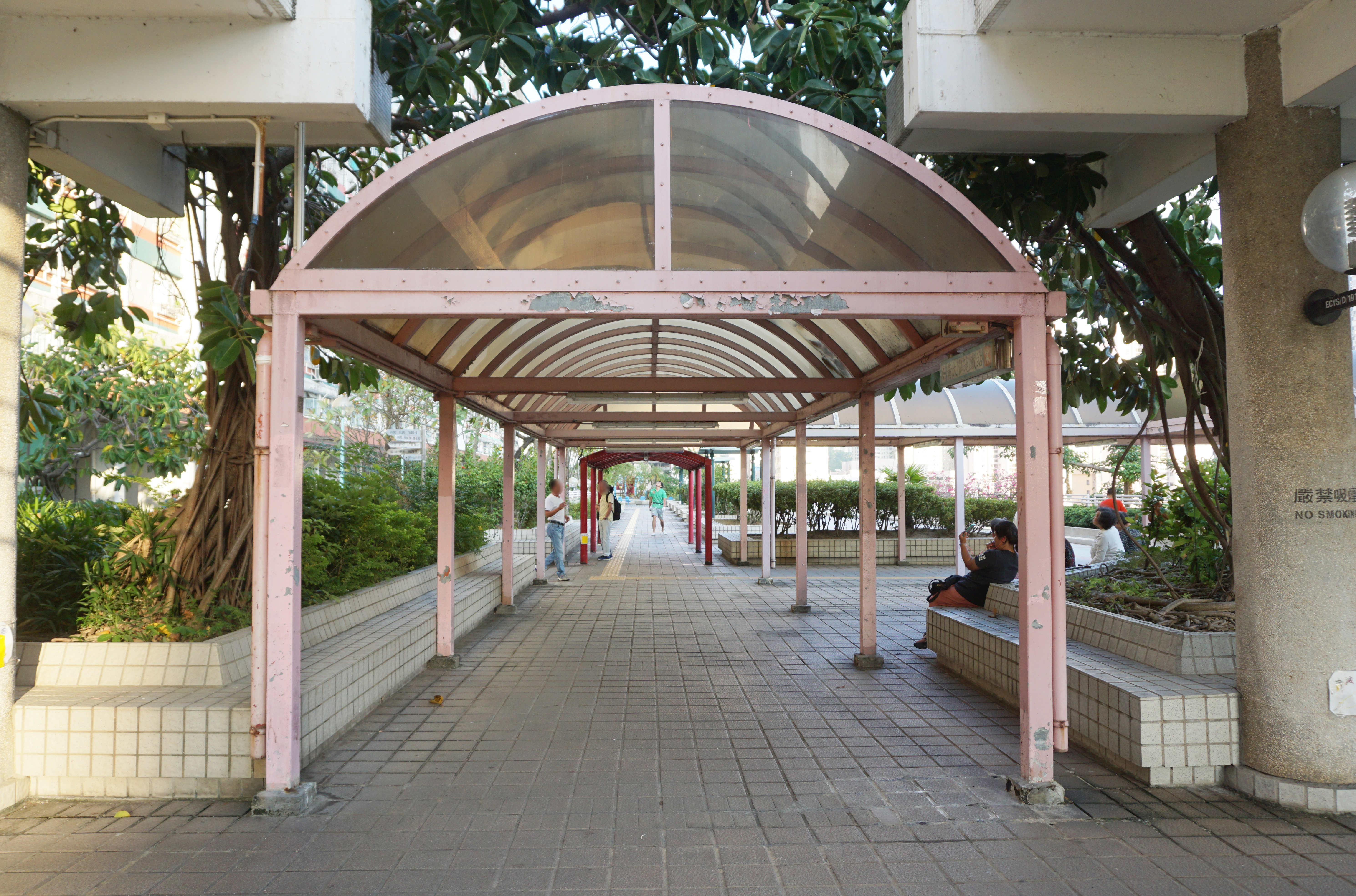 Chuk Yuen South Estate in Wong Tai Sin, Hong Kong.